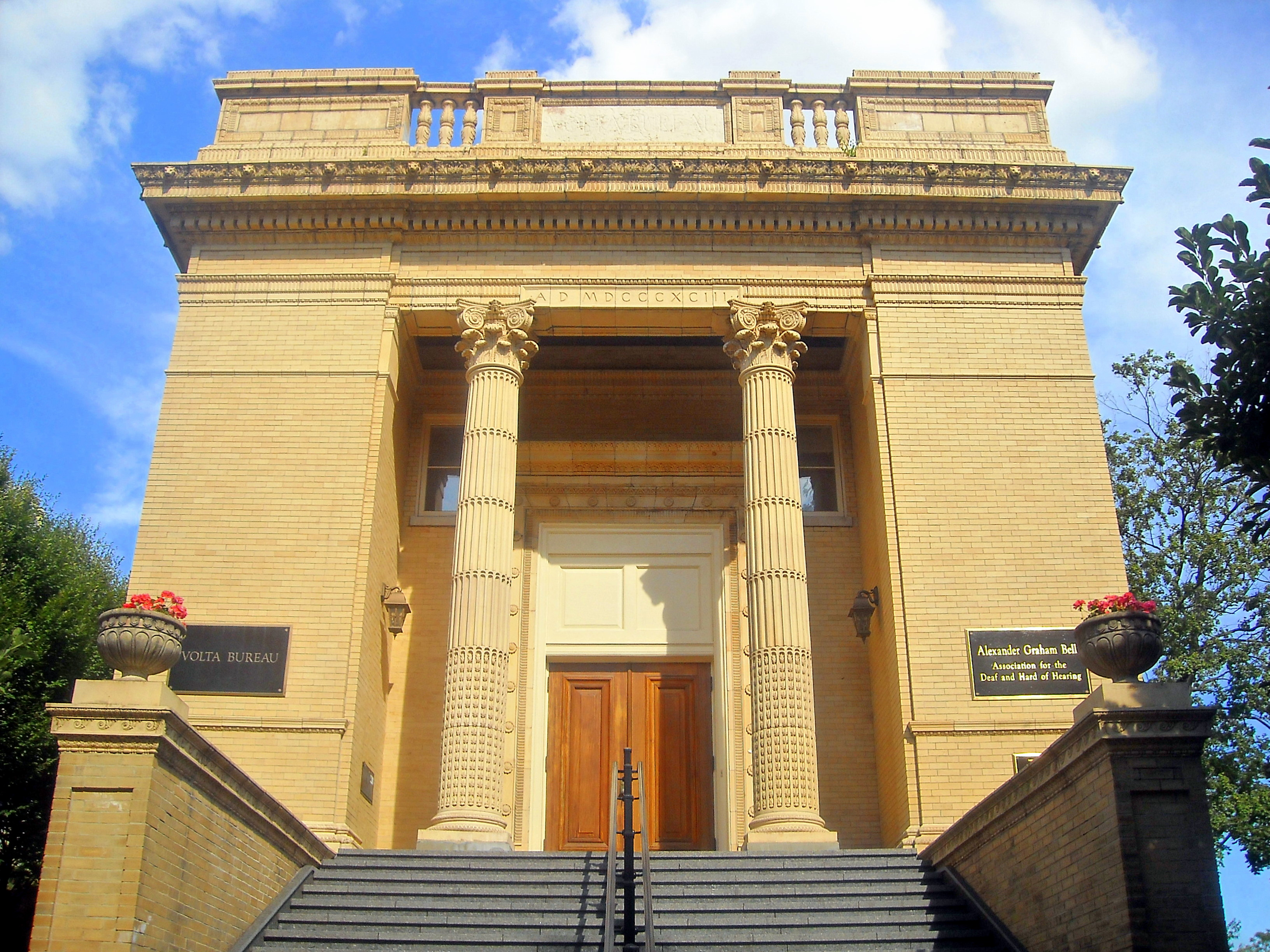 The Volta Bureau, (also known as the Alexander Graham Bell Laboratory, Bell Carriage House, Bell Laboratory, and Volta Laboratory) located at 3414 Volta Place, N.W., in the Georgetown neighborhood of Washington, D.C. Built in 1893 to the designs of architectural firm Peabody and Stearns, the neoclassical Volta Bureau was designated a National Historic Landmark (NHL) in 1972. In addition, the building is designated as a contributing property to the Georgetown Historic District, a NHL historic district listed on the National Register of Historic Places in 1967.